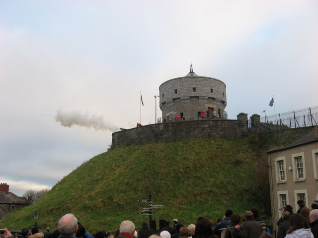 Cannon fire at Millmount, Drogheda. The first firing of one of two new 9lb cannons to mark the 200th anniversary of the construction of the Martello tower on the motte at Millmount [1].